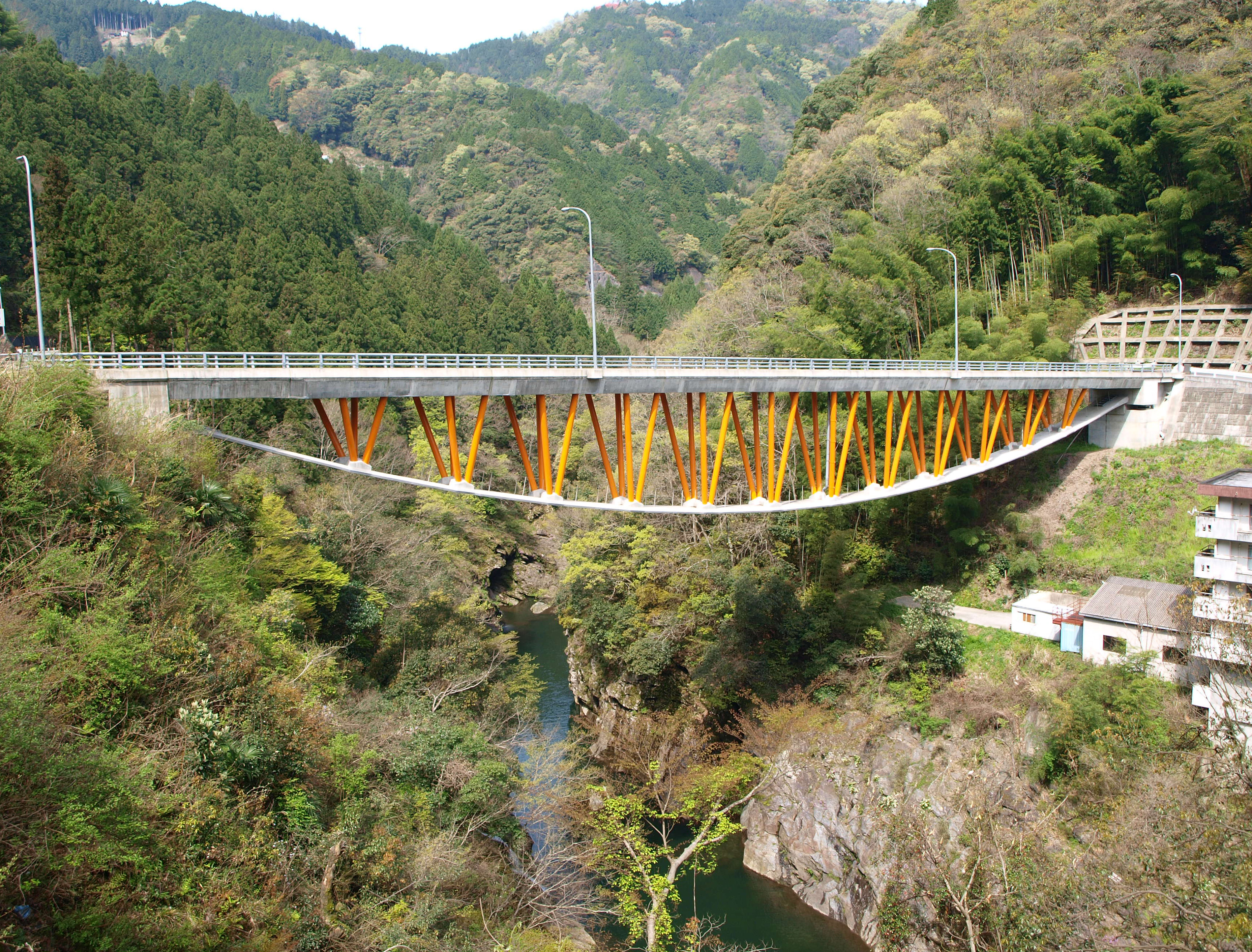 Seiun Bridge, Yamashiro-cho, Miyoshi-shi, Tokushima, Japan